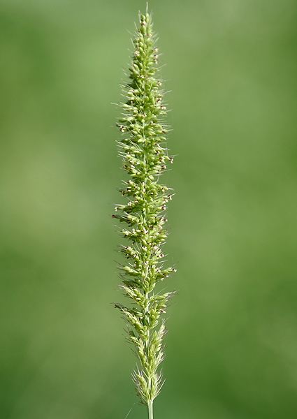 Setaria verticillata (Syn.Panicum verticillatum, Pennisetum verticillatum)- Bristly Foxtail , bur bristle grass, bur grass, foxtail, hooked bristlegrass • Hindi: Laptuna, Latkaunya • Tamil: Amarippul, Chankari, Chataippul • Telugu: Chigirinta gaddi, Chikilinta gaddi- in Hyderabad, India.